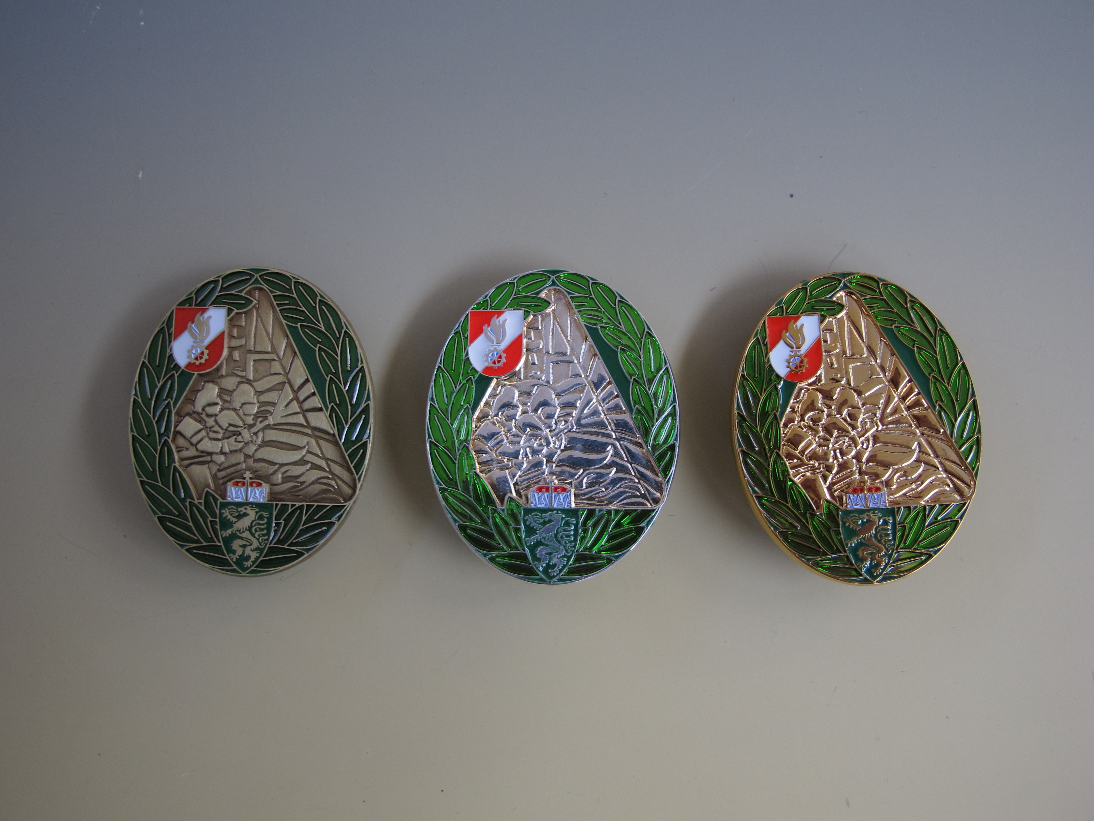 Firefighting in Styria